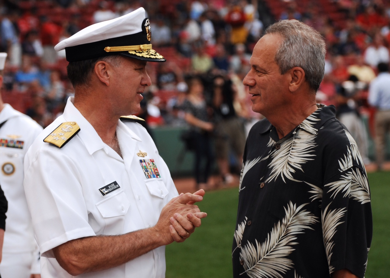 BOSTON (July 6, 2012) Vice Chief of Naval Operations Adm. Mark Ferguson speaks with Boston Red Sox President Larry Lucchino at Fenway Park. Ferguson threw out the first pitch at the July 6th game between the New York Yankee and the Boston Red Sox to help celebrate the conclusion of Boston Navy Week. Boston Navy Week is one of 15 signature events planned across America in 2012. The eight-day long event commemorates the Bicentennial of the War of 1812, hosting service members from the U.S. Navy, Marine Corps and Coast Guard and coalition ships from around the world. (U.S. Navy photo by Mass Communications Specialist 1st Class Mark O'Donald/Released) 120706-N-BX435-101 Join the conversation navylive.dodlive.mil